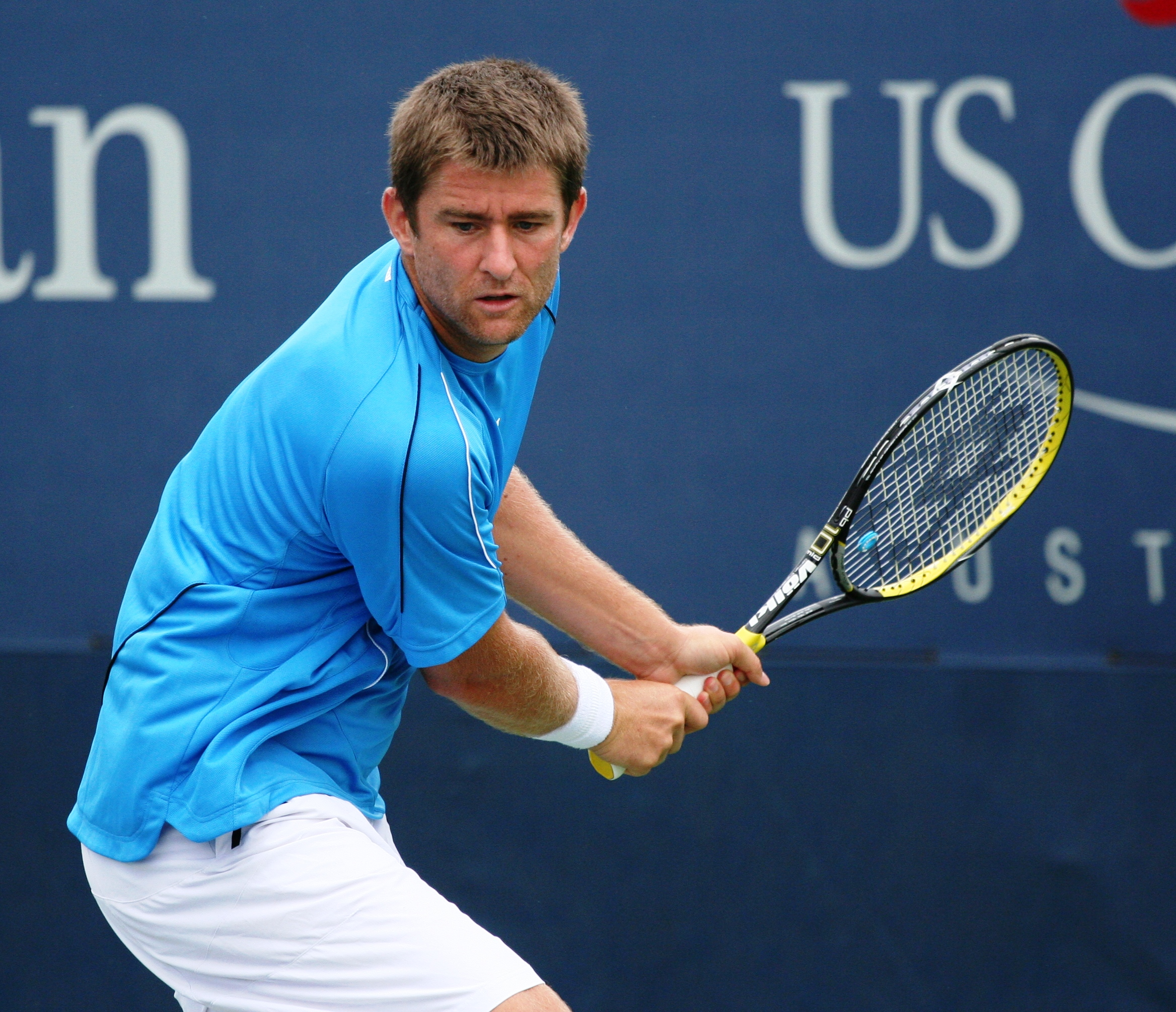 U.S. Open Friday, Sept. 3, 2010